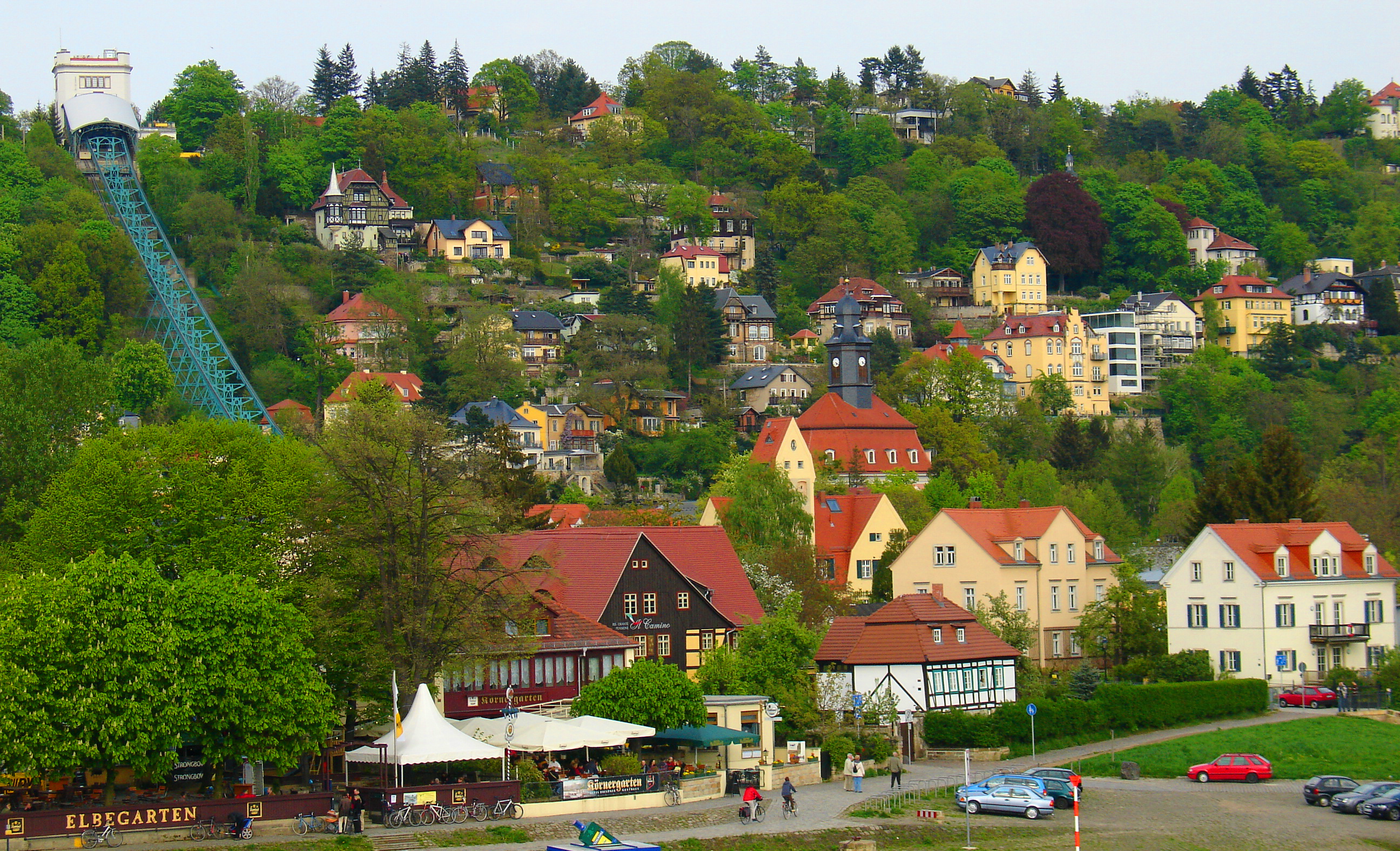 Loschwitz, Dresden seen from southern end of Blaues Wunder Bridge